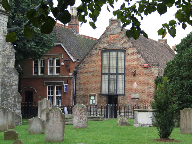 Ashford Museum You need a map to find it as it's well hidden away in the back of Ashford High Street. The Ashford Borough Museum is in the St.Mary's Churchyard. The building was originally built in 1635 by Sir Norton Knatchbull to house the newly founded Ashford Grammar School. It is next to the Tourist Information Office (left). It contains exhibits of photographs of old Ashford, Ashford at War, local archaeological and geological discoveries, artefacts from an old established Ashford pharmacy plus exhibits of every day life. There are two floors of exhibits. It still contains most of the Great Chart War Exhibition artefacts. Copies and transcripts of some of the Letters to the Friends of Great Chart can be found in 3 lever arch files near the door. The originals are at the Centre for Kentish Studies in Maidstone. Manned by volunteers, open April to October only. Admission is free, but don't forget your donation on the way out.